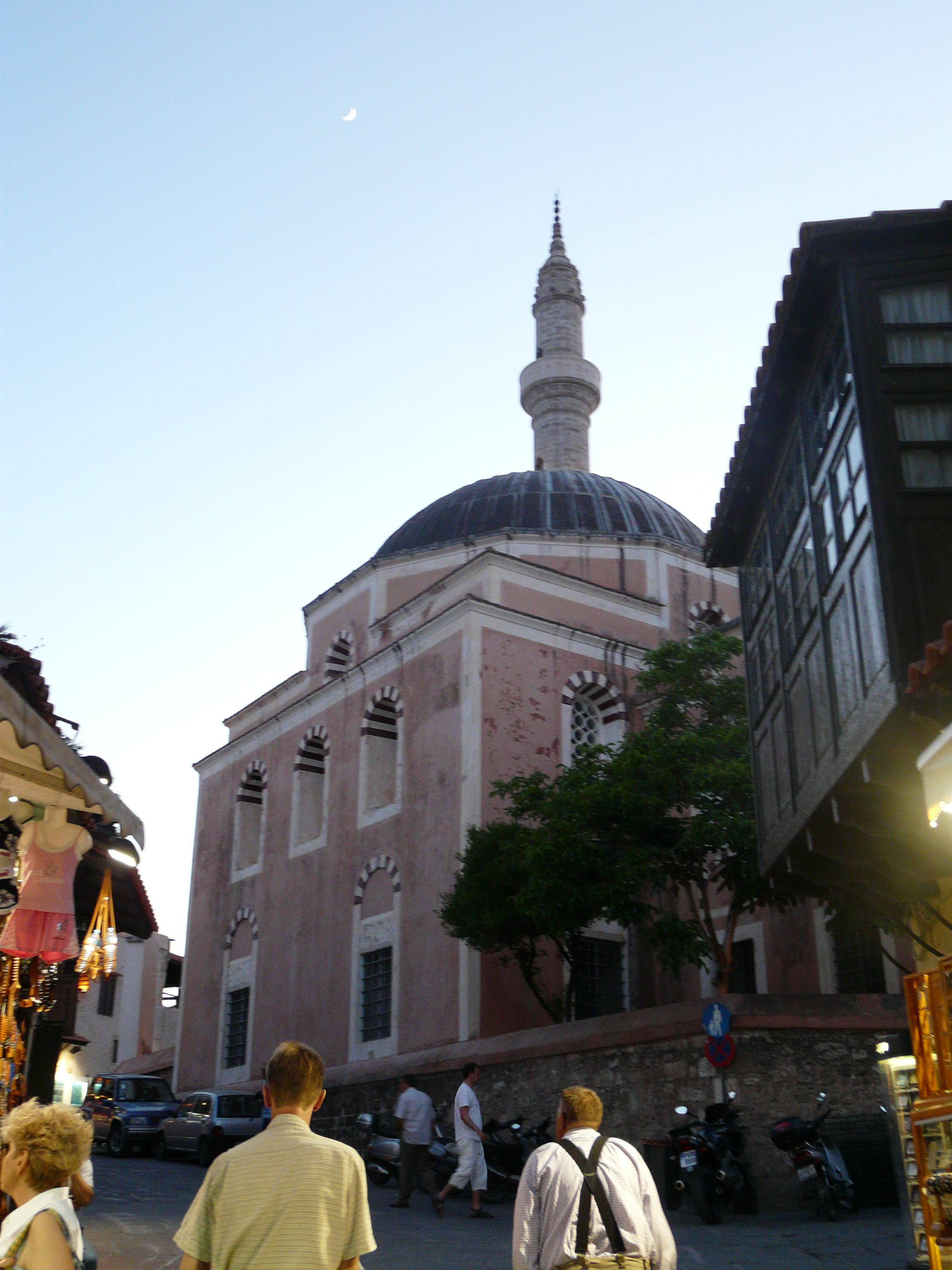 City of Rhodes.